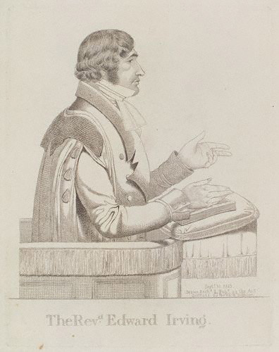 Edward Irving (1792-1834)